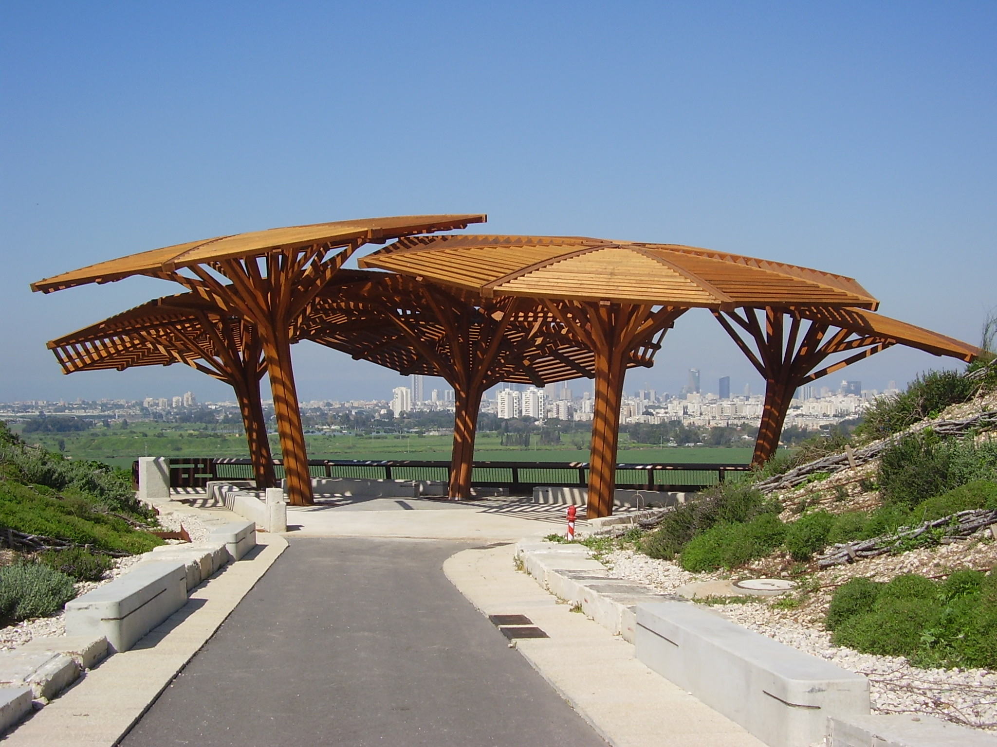 observation point in ariel sharon park near tel aviv